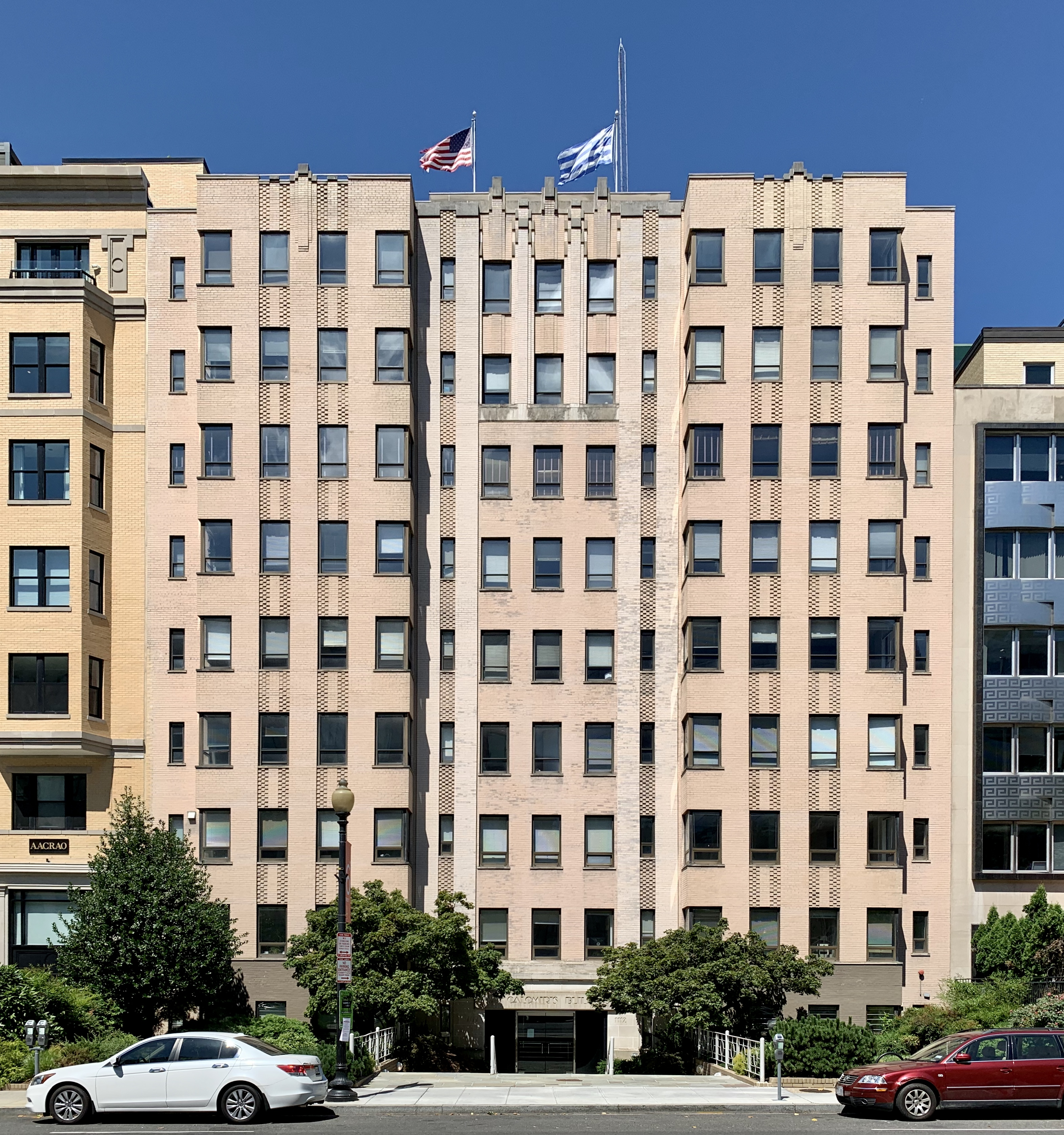 The Calomiris Building is an apartment building turned office space located at 1112 16th Street NW in Washington, D.C. It was built in 1940 and originally named The Pall Mall. The building is a contributing property to the Sixteenth Street Historic District.